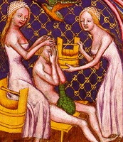 Bible of Wenceslaus IV.